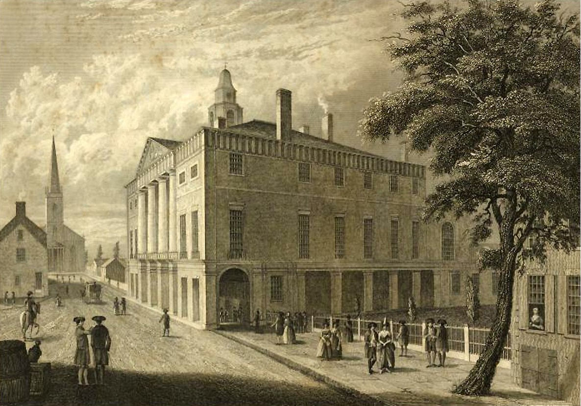 New York, Wall Street, Federal Hall and Trinity Church 1789